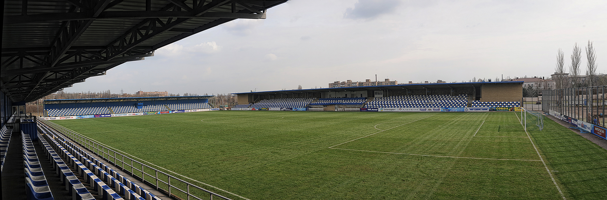 Olimpik Stadium in Donetsk, Ukraine